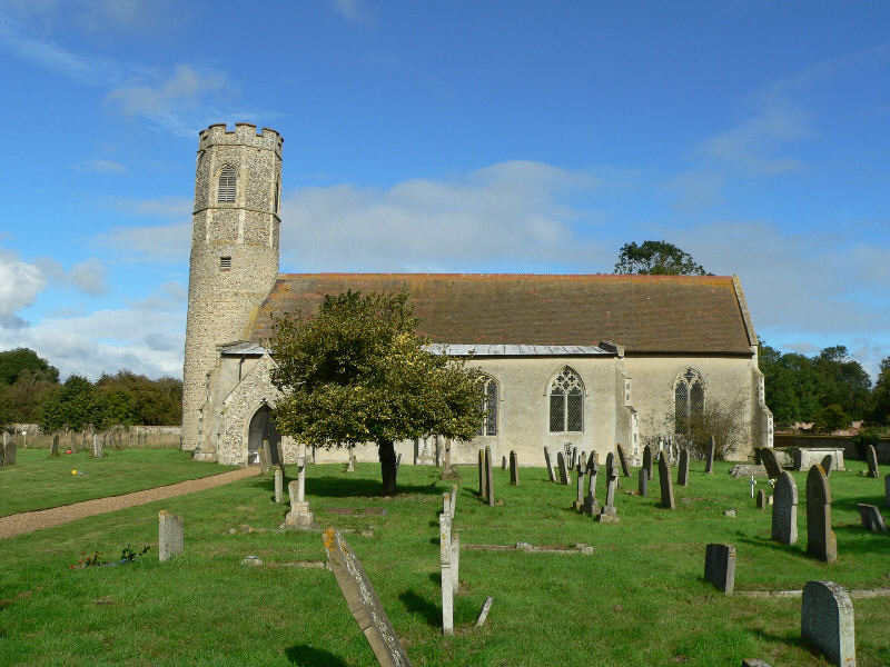 Woodton All Saints